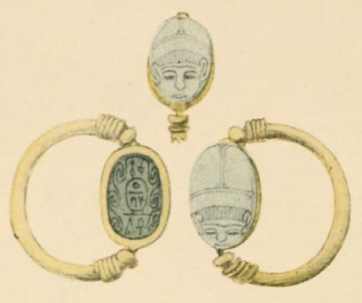 Drawing by Percy Newberry of a golden signet ring of the Hyksos pharaoh Apepi (also known as Apophis) inscribed with "Good king, Aauserre, given life", 15th dynasty, second intermediate period.